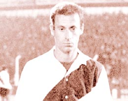 Former River Plate footballer Delém